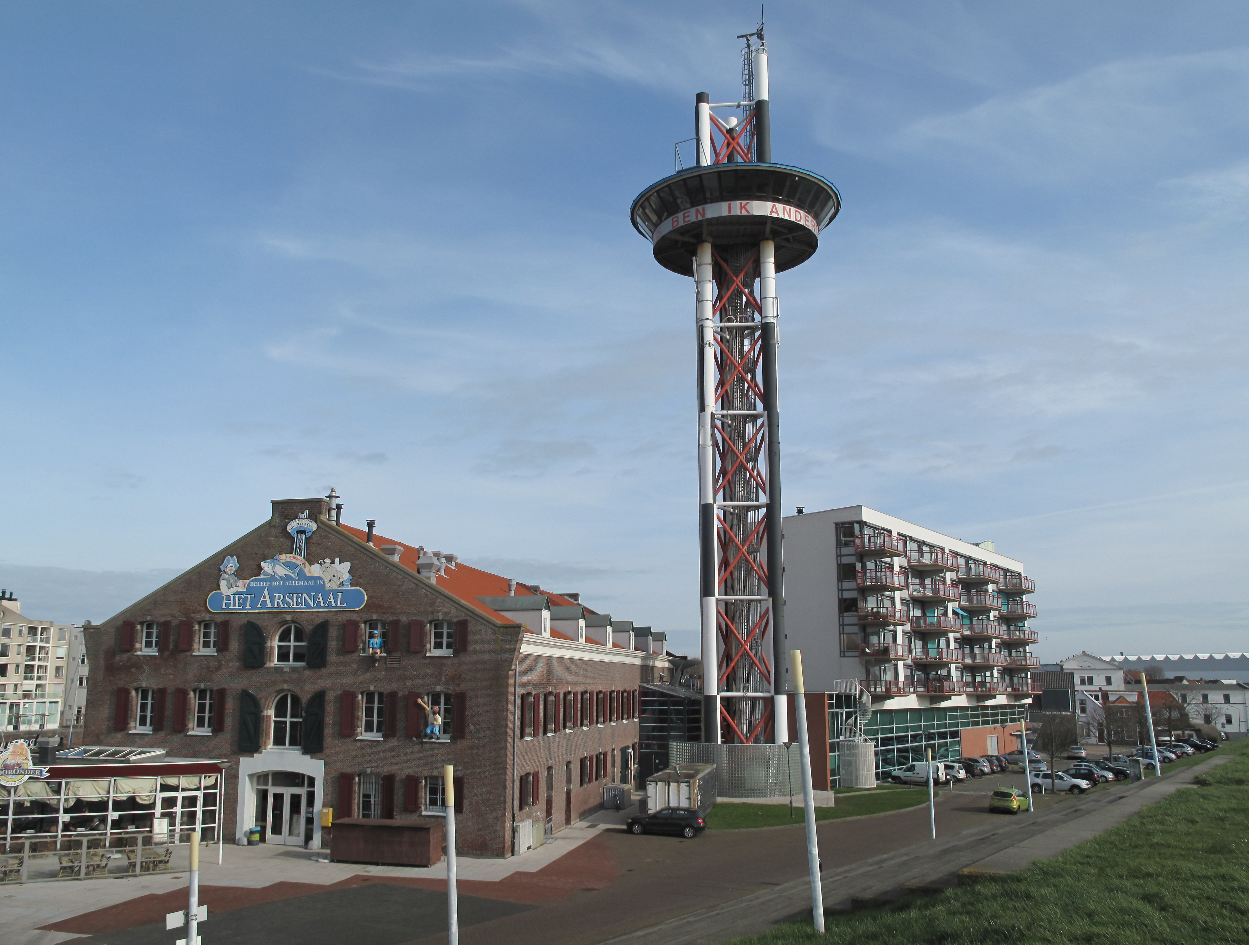 Vlissingen, view to a building: het Arsenaal